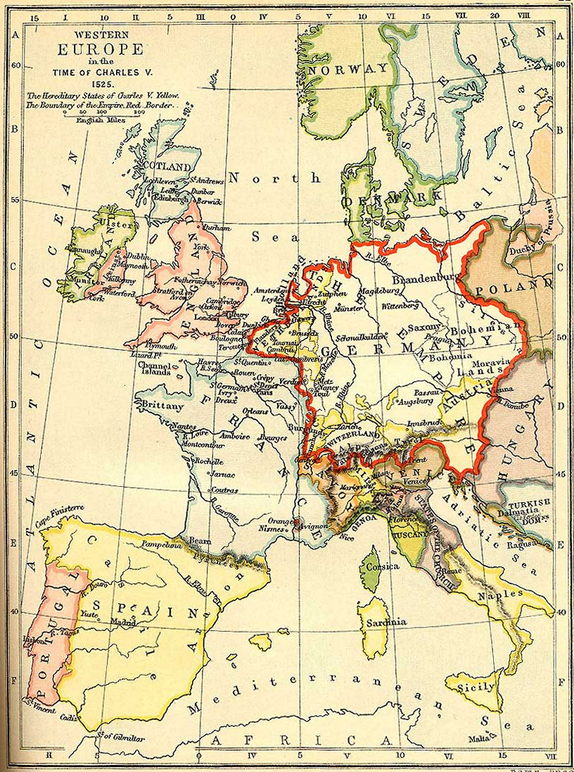 Map of Western Europe in the Time of Charles V (1525)